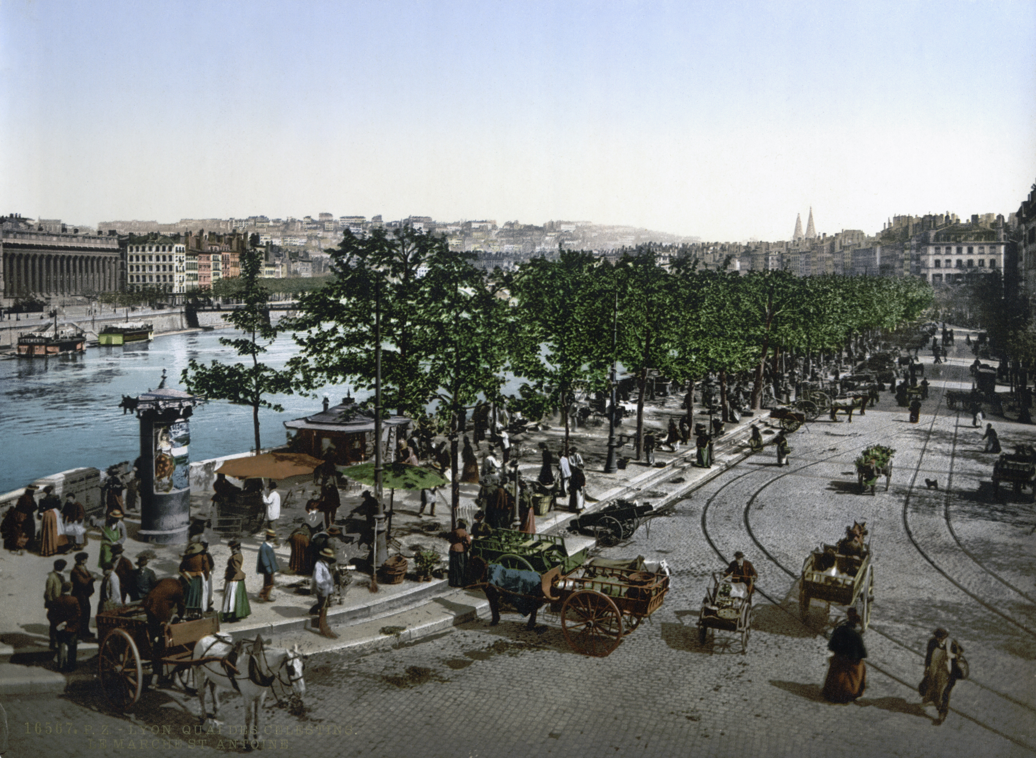 Quay des Célestins, the market of St. Antoine, Lyons, France